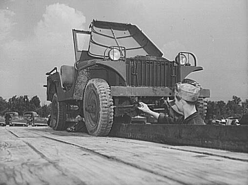 Maintenance of mechanized equipment at Fort Knox. Even the tough little Willys MA jeeps must be serviced. This vehicle, like all others of its class, makes regular trips to the grease pit for lubrication, adjustment and general inspection.